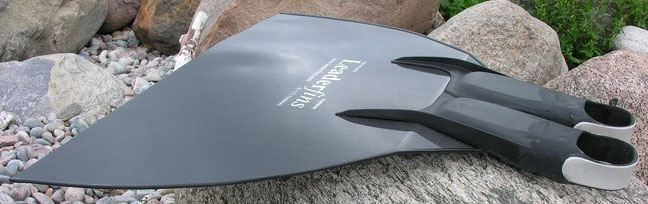 Monofin